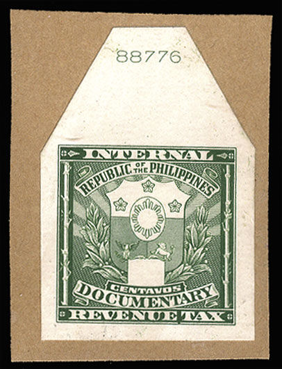 1947 die proof of a revenue stamp of the Philippines.